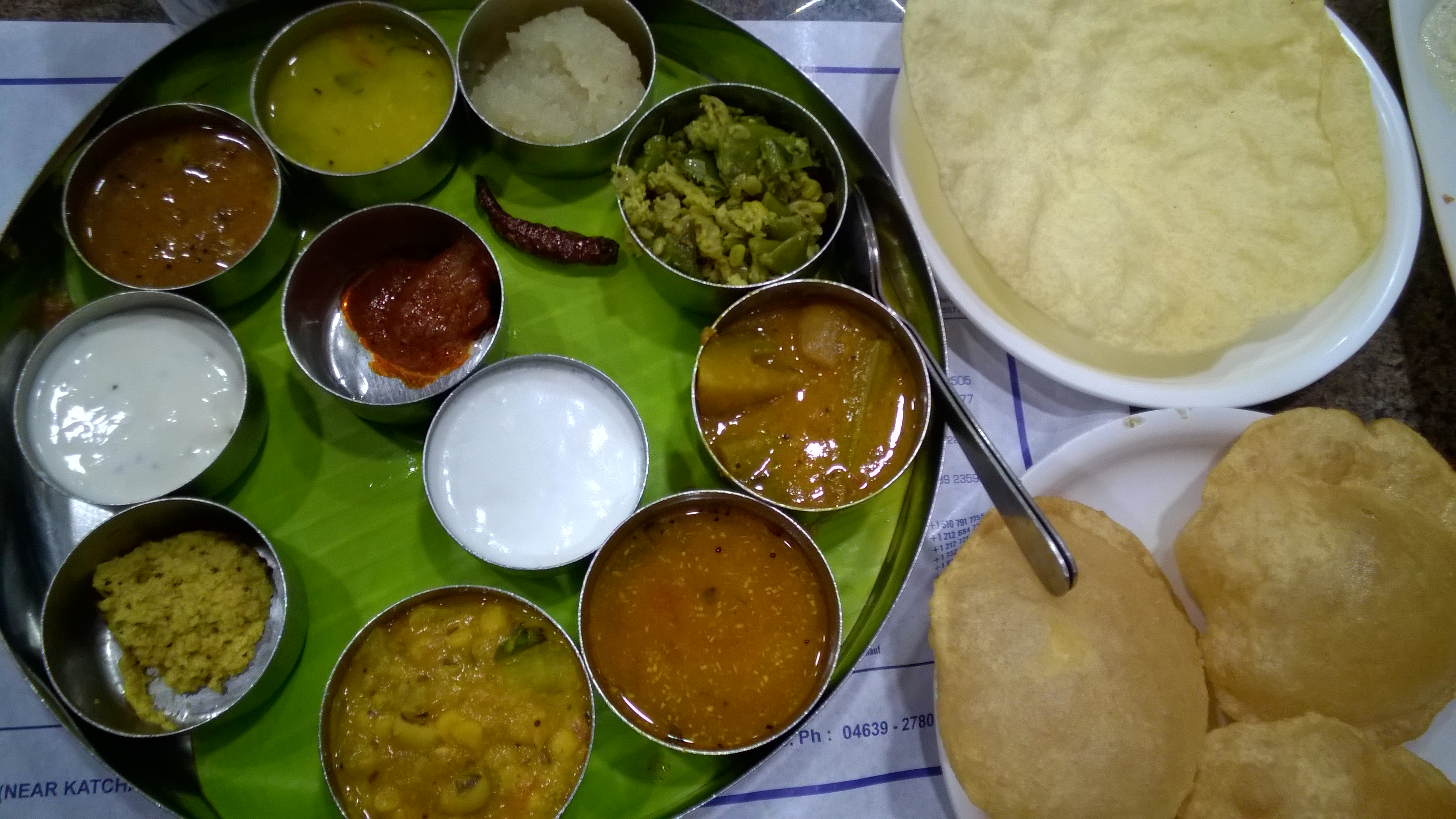 Different vegetables cooked in south indian style served with puffed bread and rice.